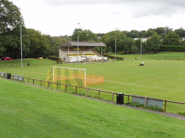 Bodmin Town Football Club. This ground is in Priory Park, Bodmin. for information about the club, founded in 1889.